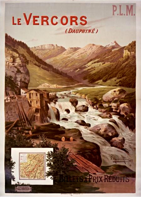 Poster of the PLM railway company, France: le Vercors (Dauphiné).